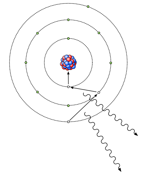 Electron capture & Auger electron Excess X-ray(s) (or Auger electron(s)) be emitted when electron(s) transit from outer orbit to inner orbit.